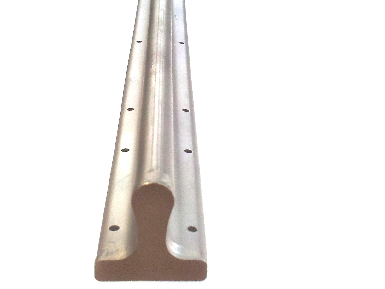 Rosemount annubar flow element, downstream profile is uppermost.